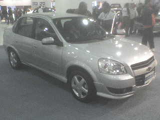 The new 4 door 2009 Chevy at the SIAM 2008.